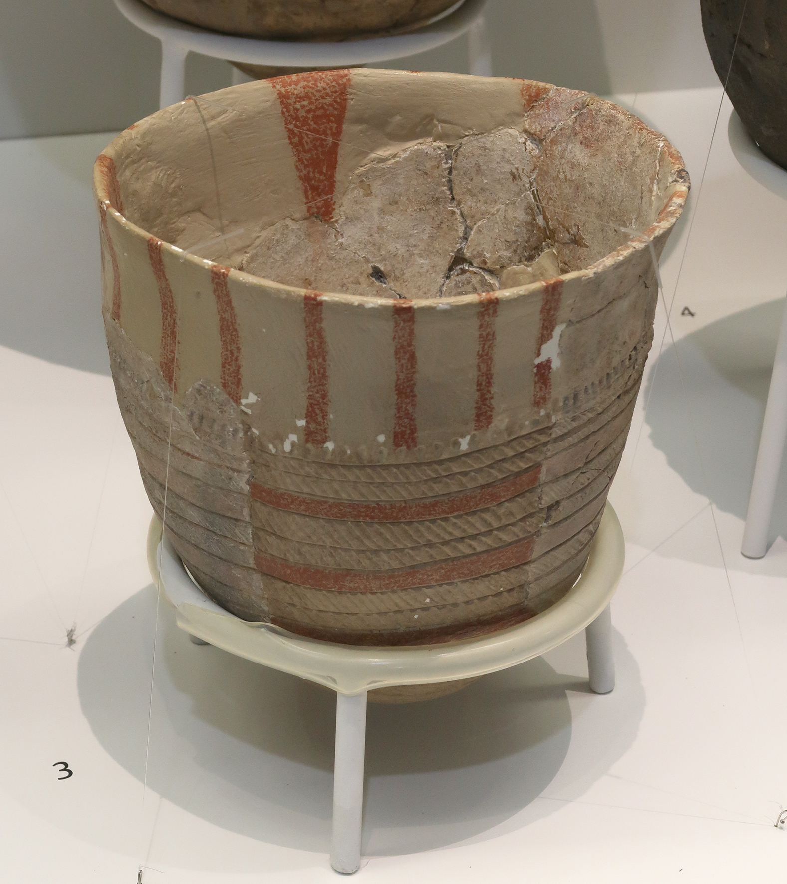 Red-line Painting Pottery. Yeondae-do. Neolithic. Gimhae National Museum.